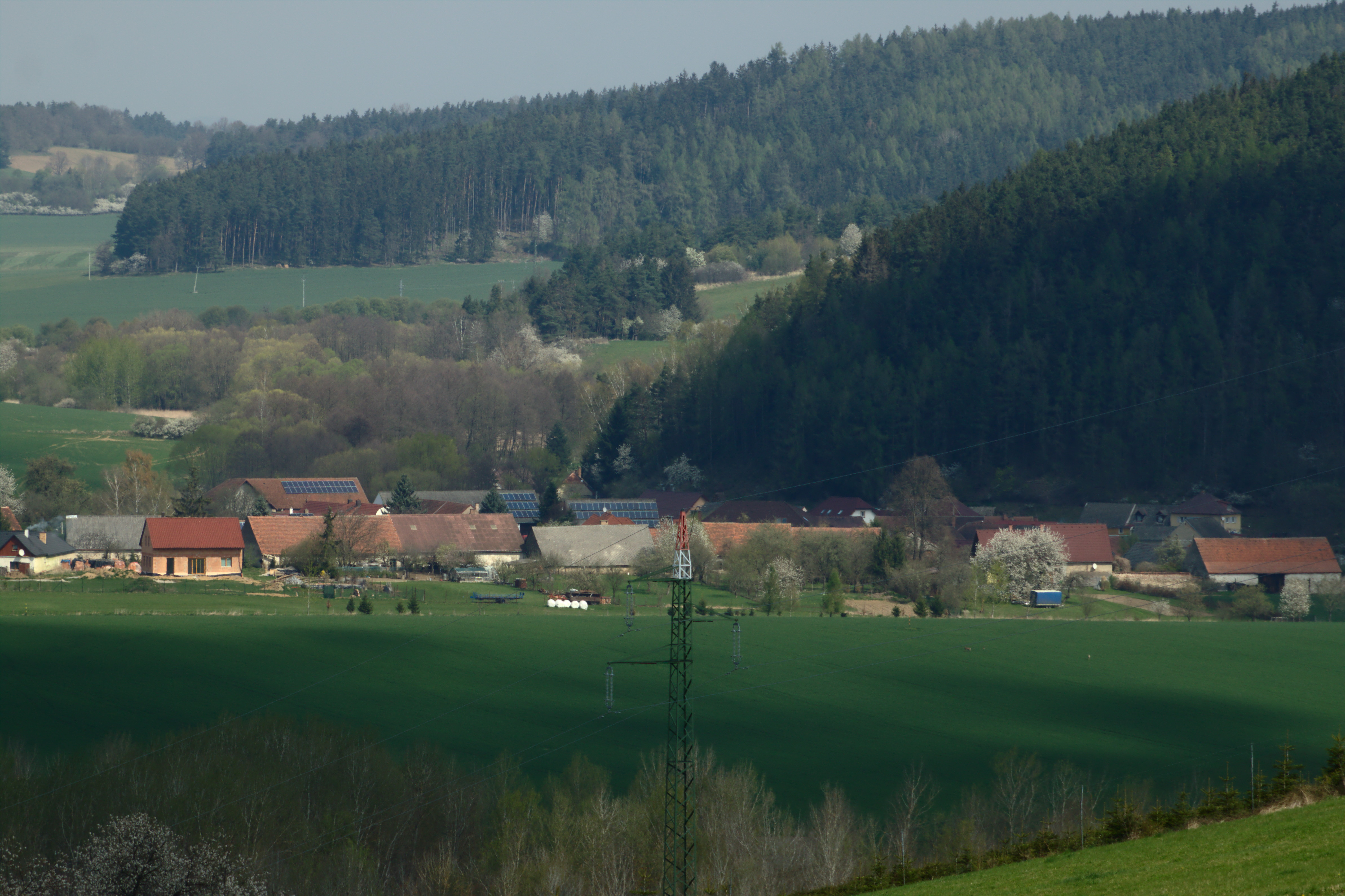 View of the village of Tedražice, Plzeň Region, CZ